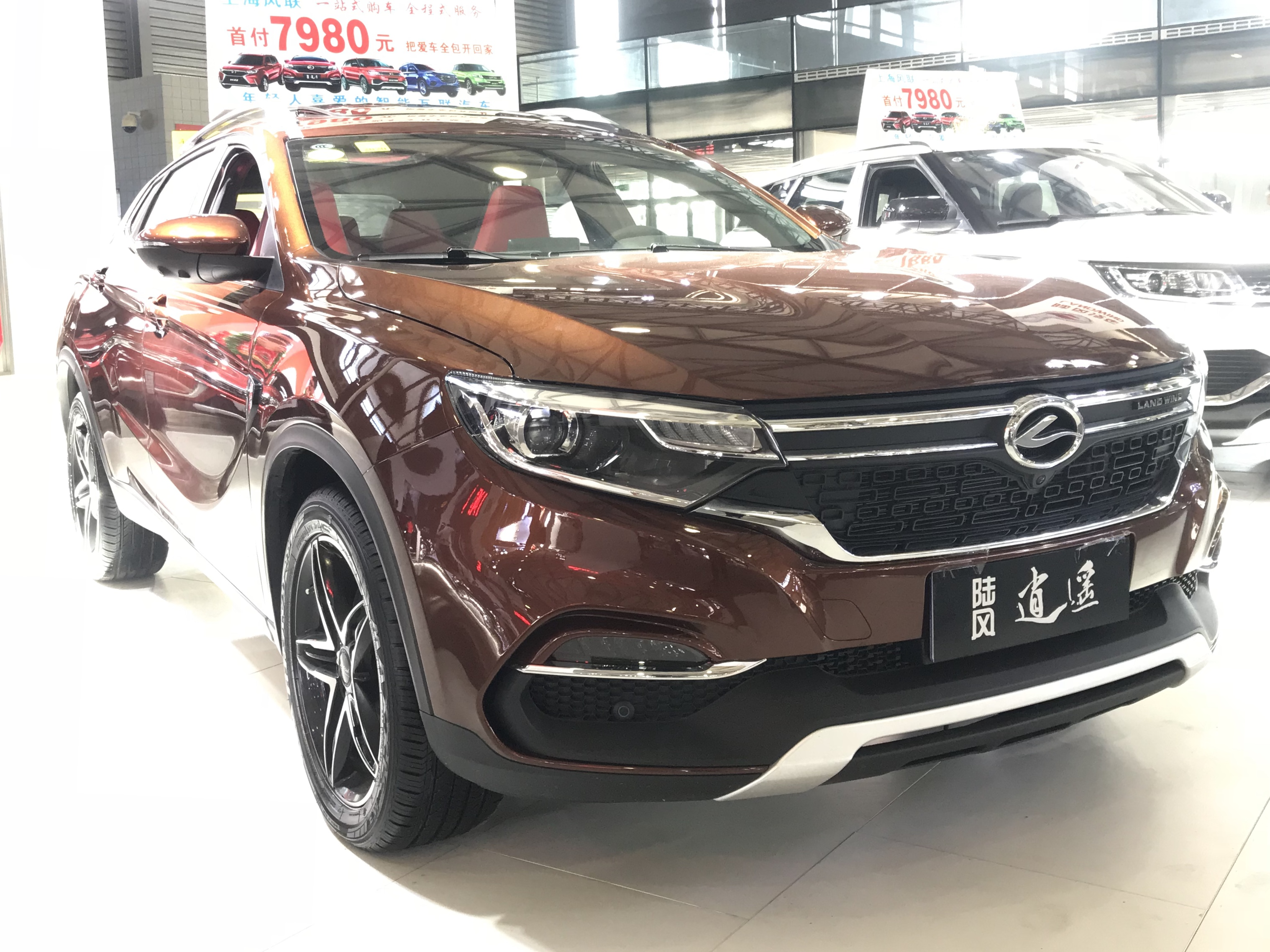 Landwind Xiaoyao front